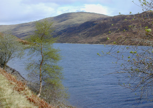 Loch Eilde Mor Looking towards Glas Bheinn.